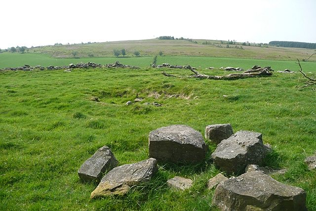 From the Brynhynae bridleway A bridleway runs south-west to north-east through the square, out of the Mynydd Epynt army training area. This is looking south towards the restricted area, clearly seen above the fields.